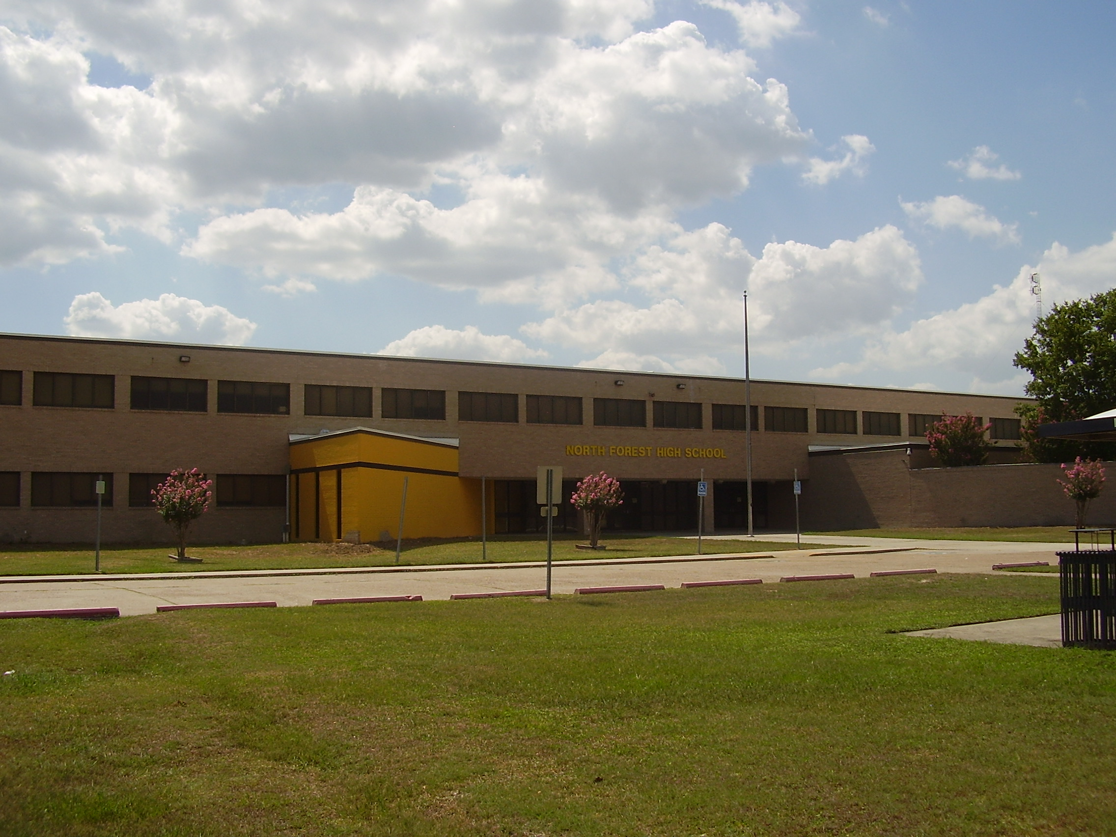 North Forest High School, formerly M. B. Smiley High School